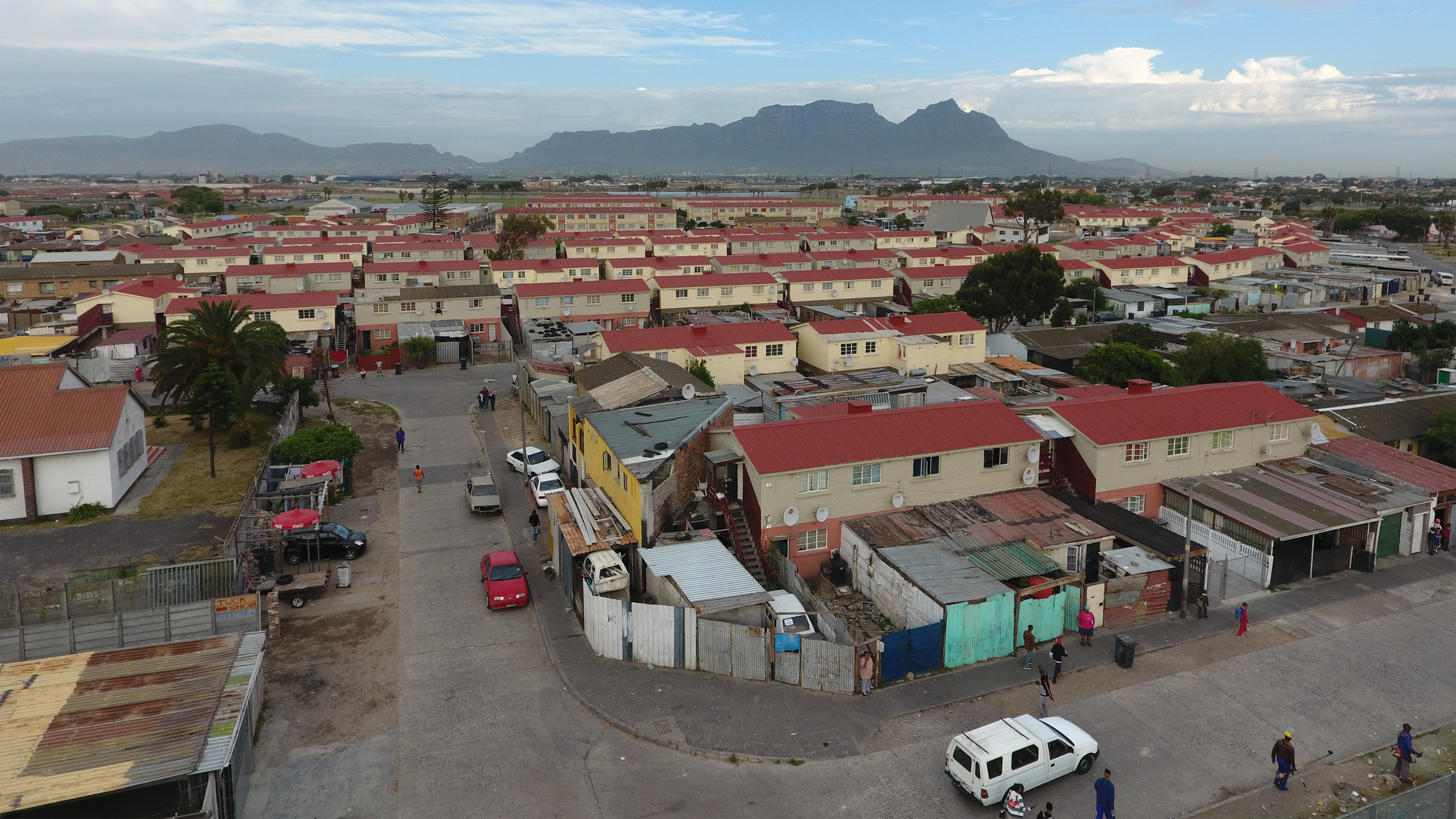 A view over the Cape Town neighbourhood of Manenberg.